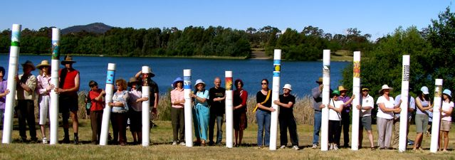 Poles raised at the SIEV X Memorial Sunday 15 October 2006, Canberra, Australia. Photo: G.Johnstone, mod: D.M. Vernon